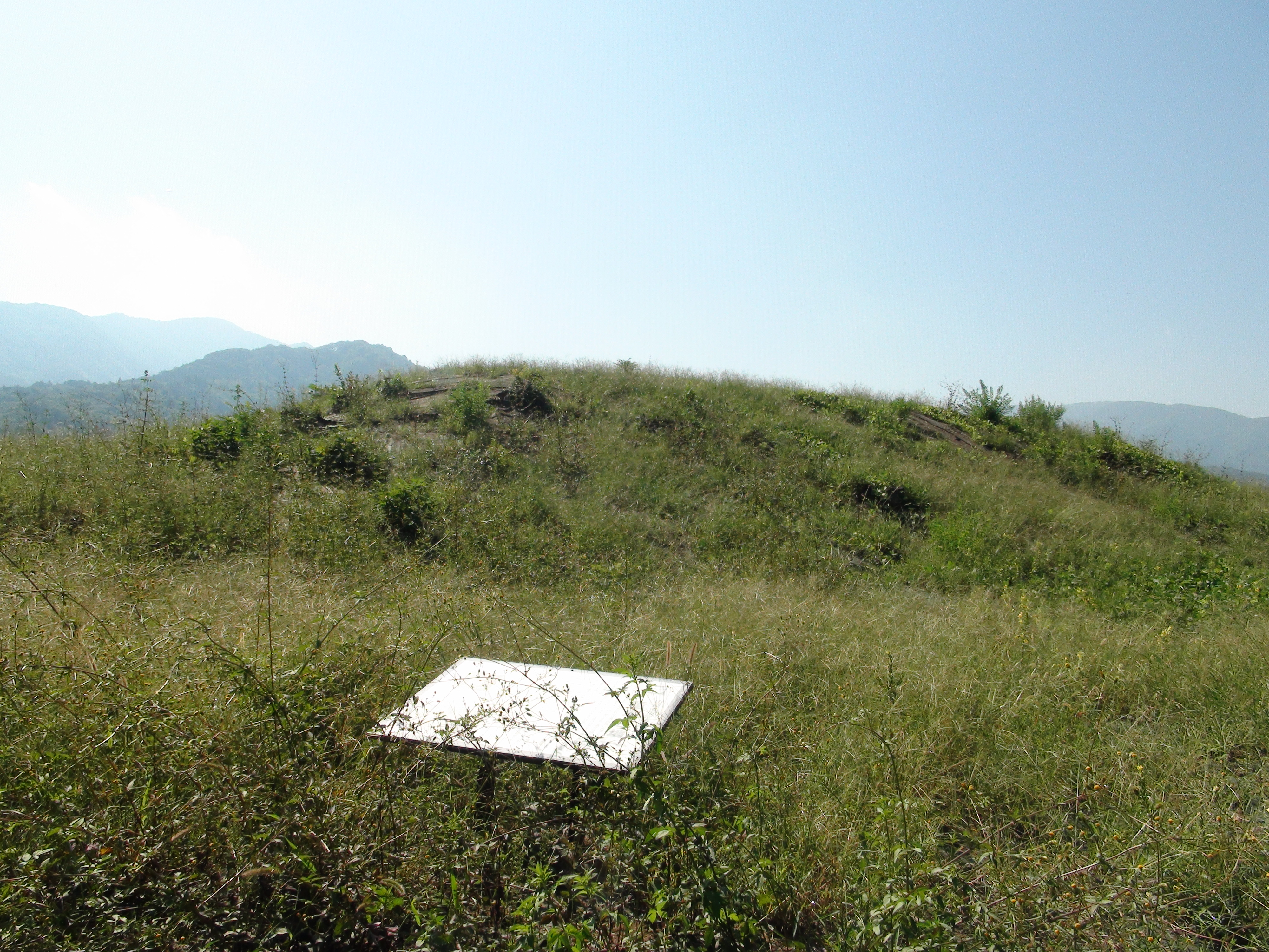 Ryuzuka-Kofun Old tomb Fuefuki -City